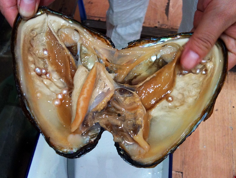 A newly-opened freshwater oyster, showing the rows of cultured pearls inside. Photographed in Shanghai, China.